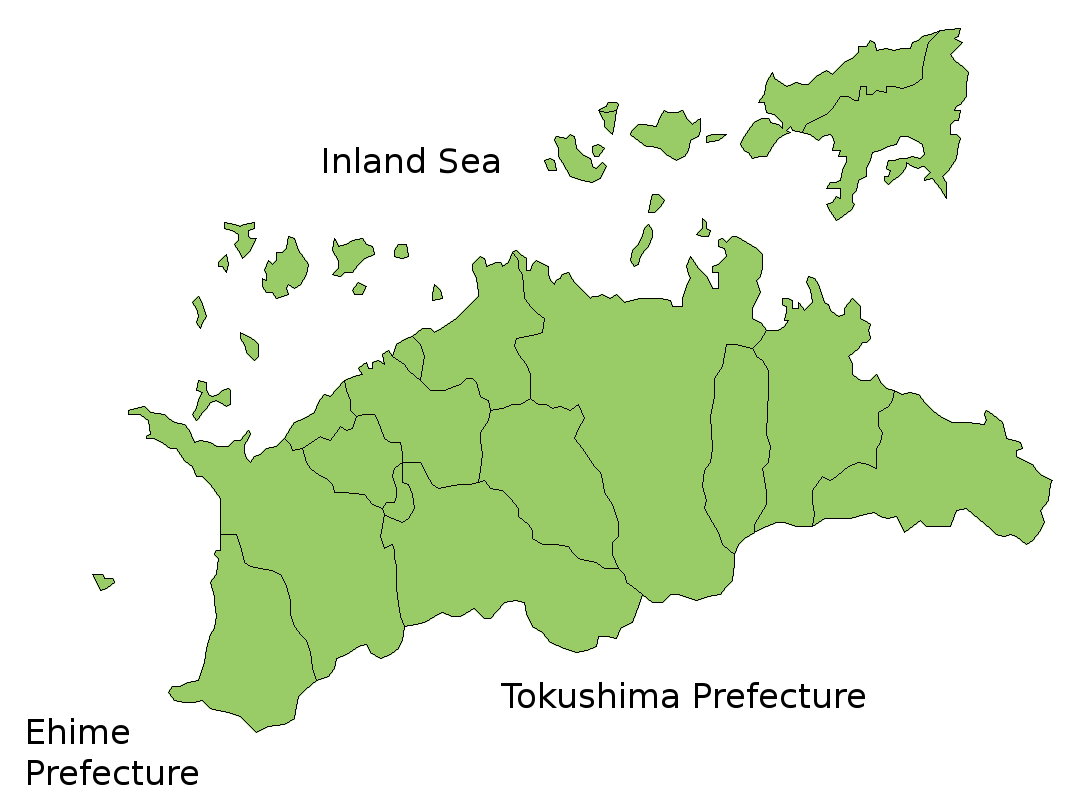 Map of Kagawa Prefecture, Japan. Thanks to Aoki Shigenobu and [1]. Colors from Image:TokyoMapCurrent.png by User:Fg2.